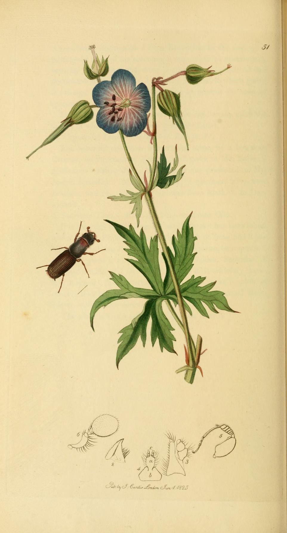 An illustration from British Entomology by John Curtis. Coleoptera: Platypus cylindrus (Cylindric Ambrosia Beetle).